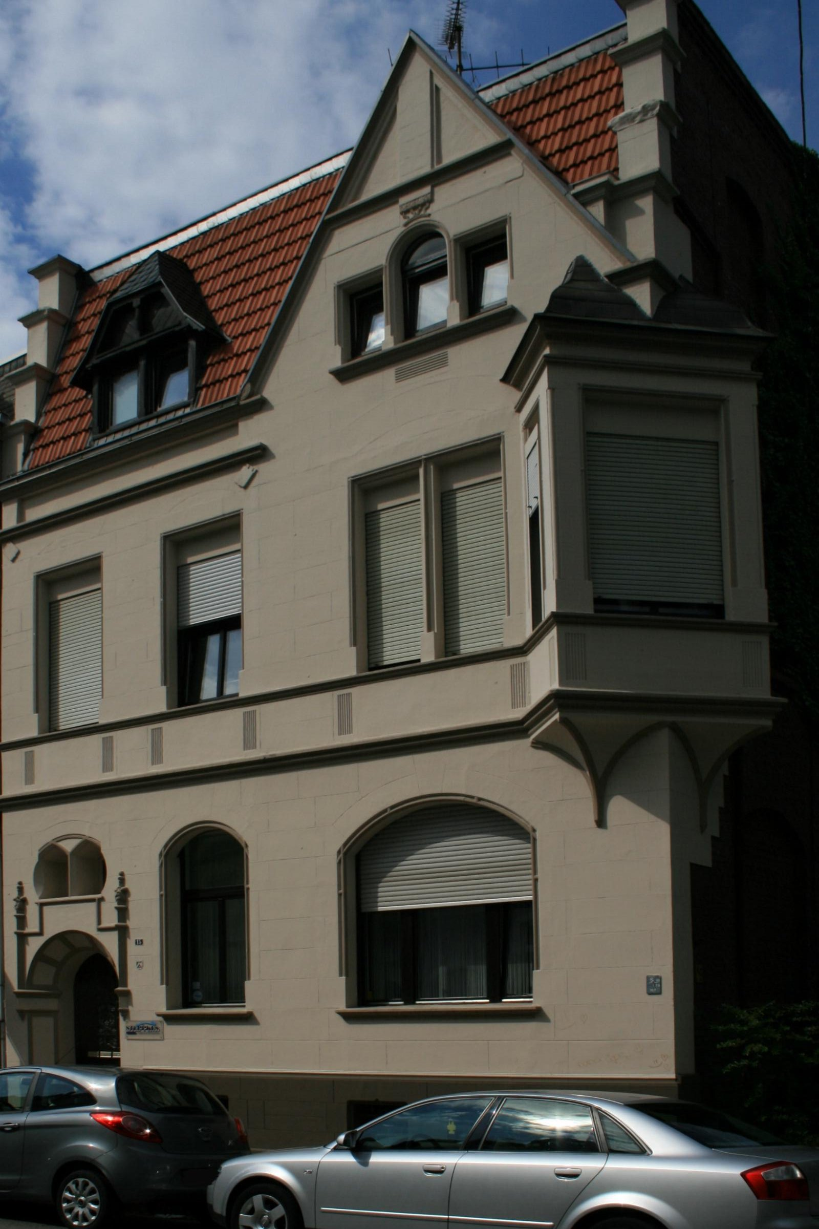 Cultural heritage monument No. L 002 in Mönchengladbach